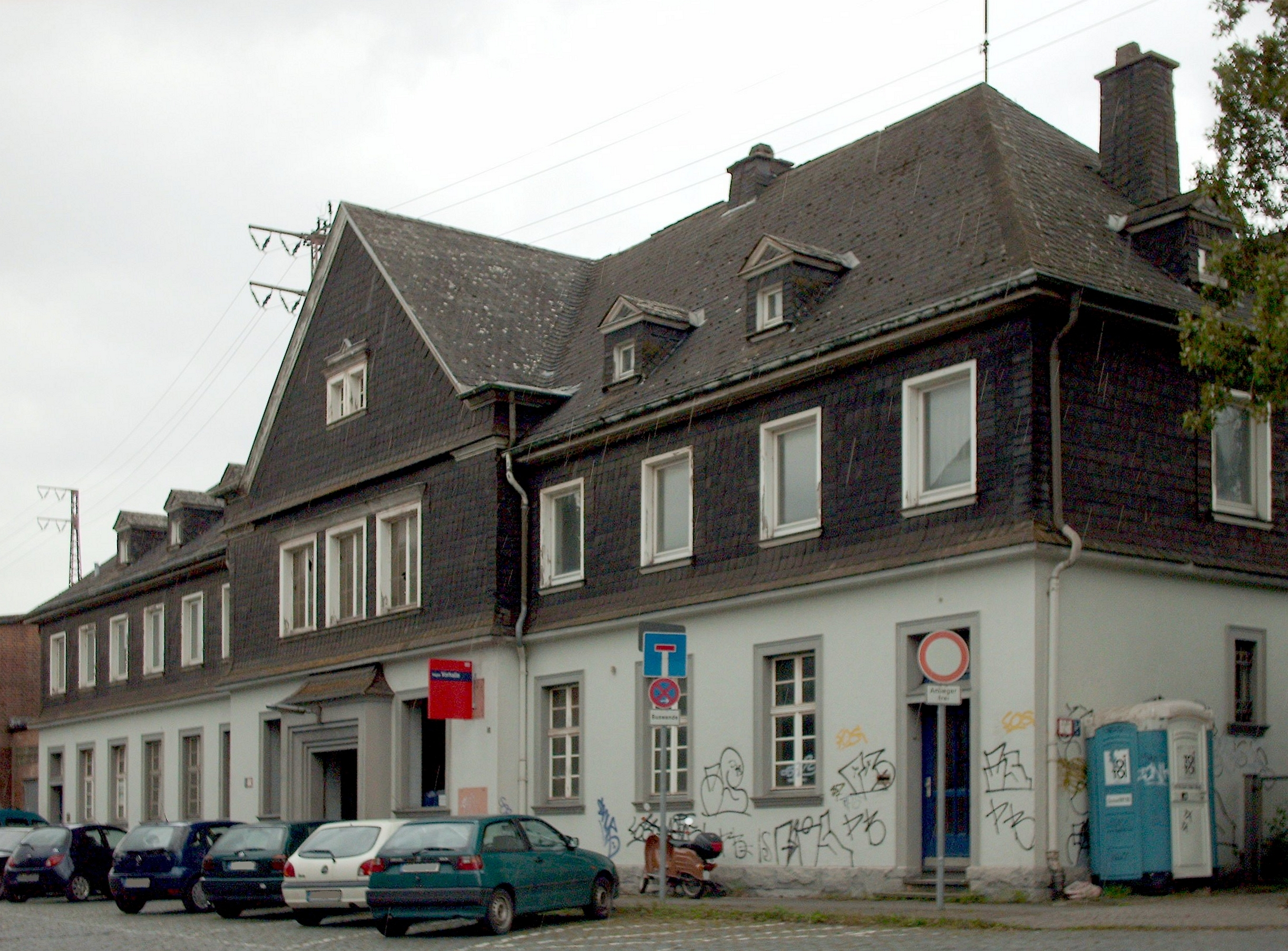 Vorhalle station, Hagen, Germany check usage